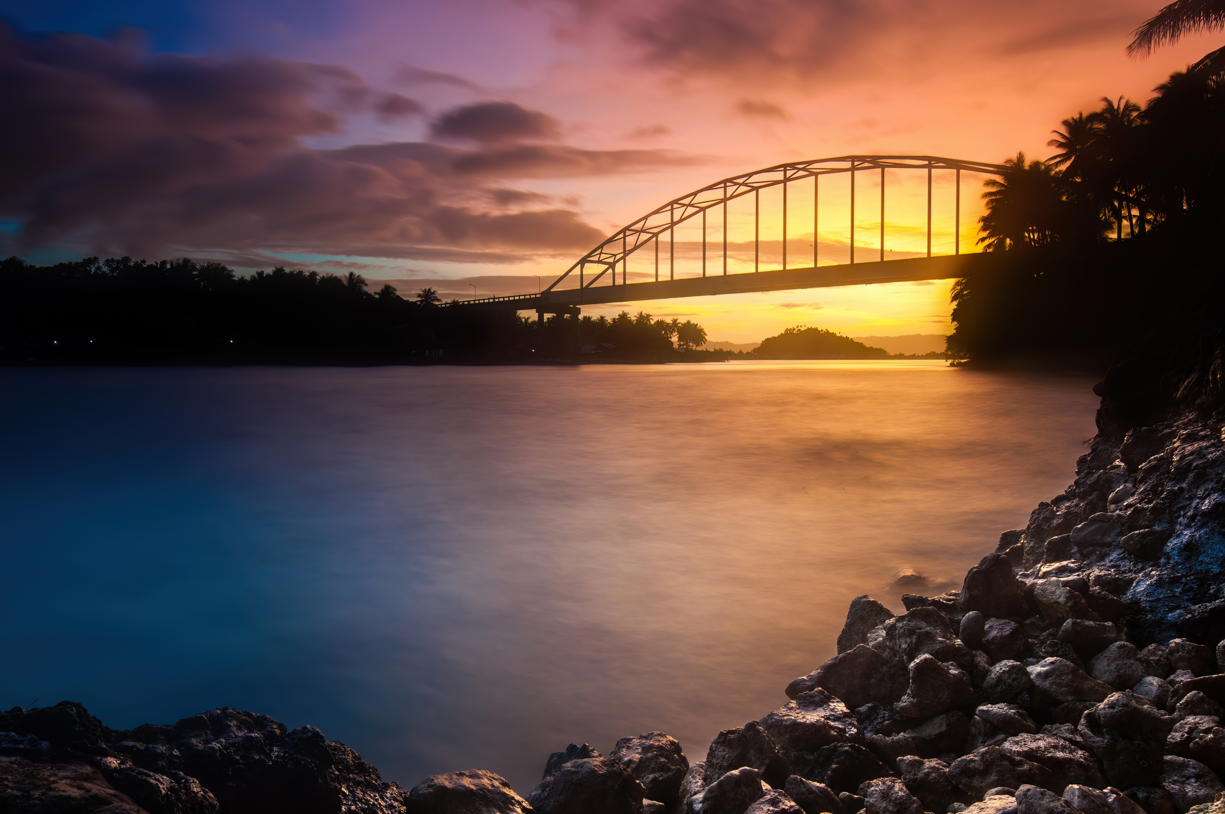 Wawa Bridge connects Panaon island to mainland Leyte.